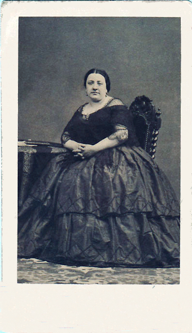 Adolphe Eugène Disderi (1810-1890) - The Italian contralto Opera singer Marietta Alboni (1826-1894).